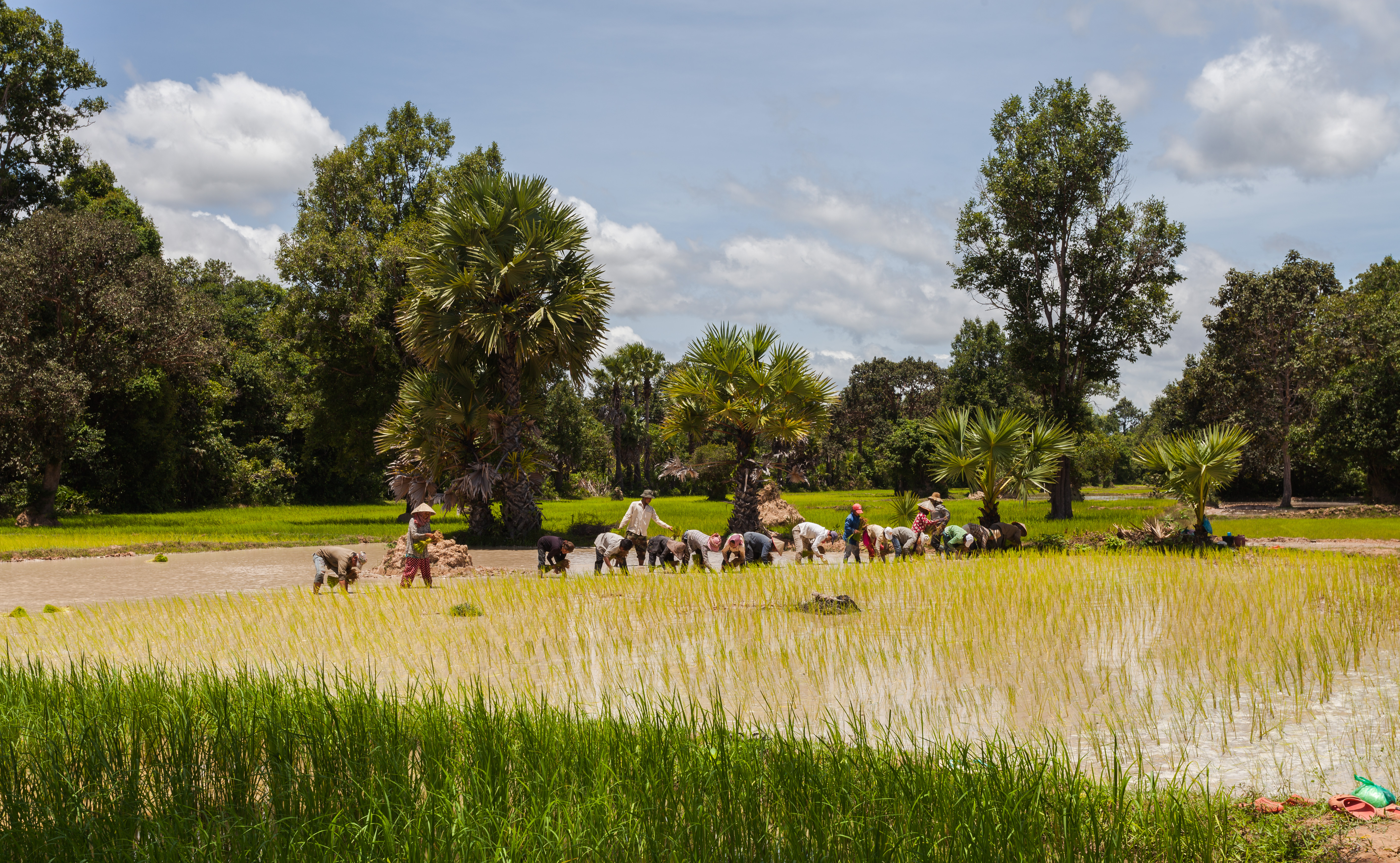 Paddy field, Angkor, Cambodia